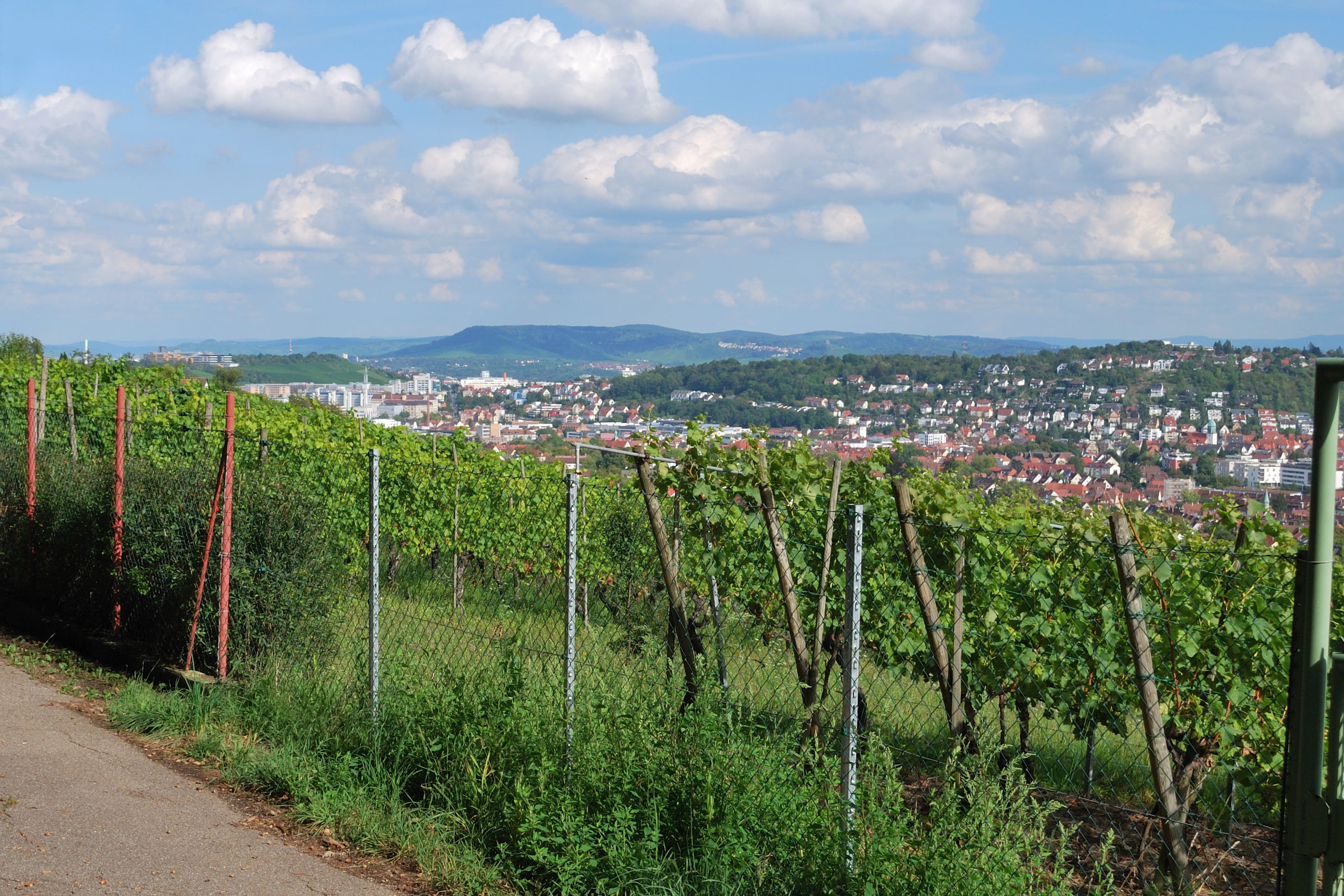 View of Stuttgart-Feuerbach from Lemberg.